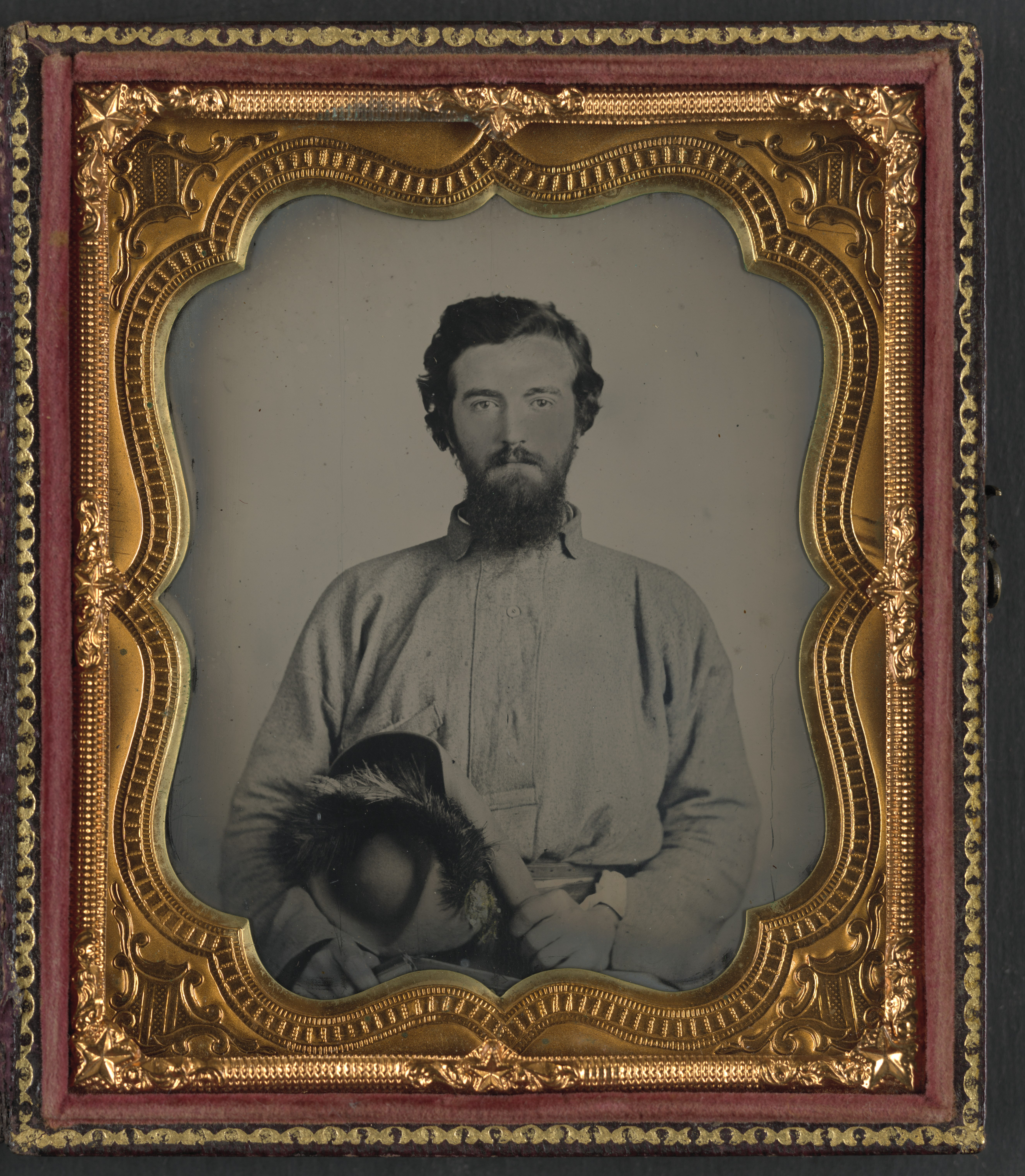 Title: Private Benjamin W. Varnell of Co. B, 1st Texas Cavalry Regiment in uniform with plumed hat Abstract/medium: 1 photograph : tintype ; plate 82 x 69 mm (sixth plate format), case 94 x 80 mm.